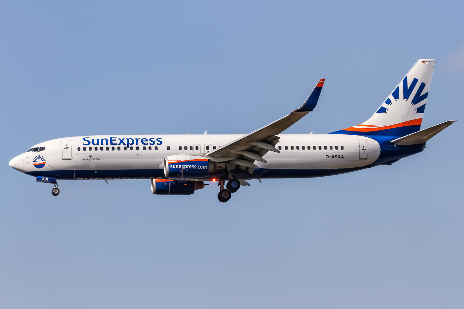 D-ASXA SunExpress Germany Boeing 737-8Z9(WL) coming in from Las Palmas (GCLP) @ Frankfurt - Rhein-Main International (EDDF) / 26.03.2016